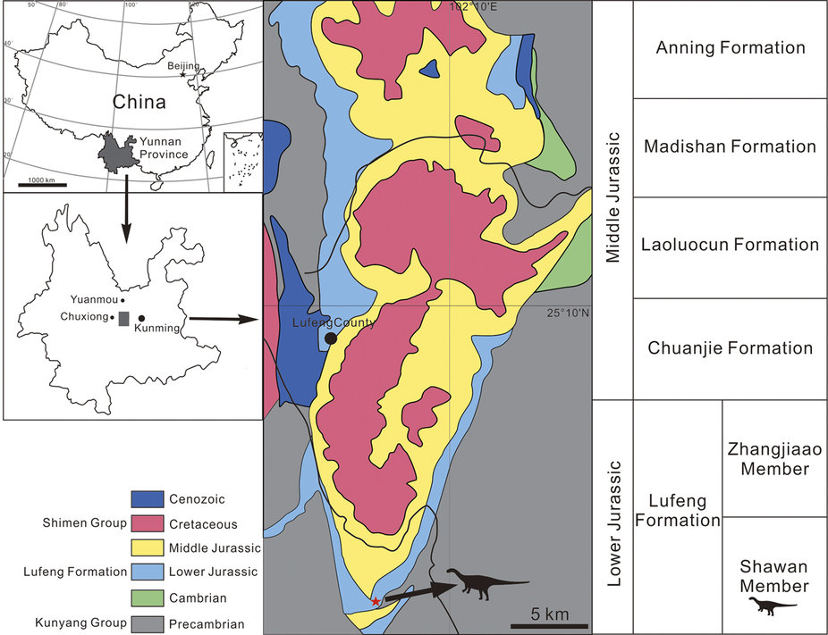 Figure 1: Geographic and geologic map showing the location of Xingxiulong chengi gen. et sp. nov. (indicated by the red star and dinosaur silhouette), and generalized stratigraphic section of Early and Middle Jurassic of Lufeng Basin, modified from Fang et al. This map is created by Y.M.W. using CorelDRAW (vers. X7)